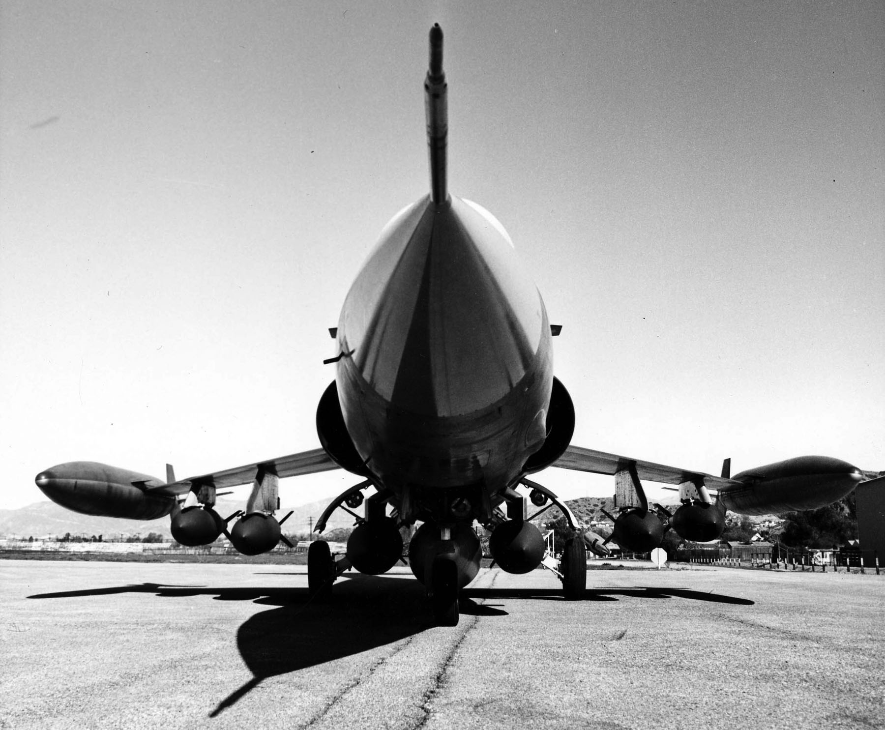 Lockheed F-104G showing full external stores load.